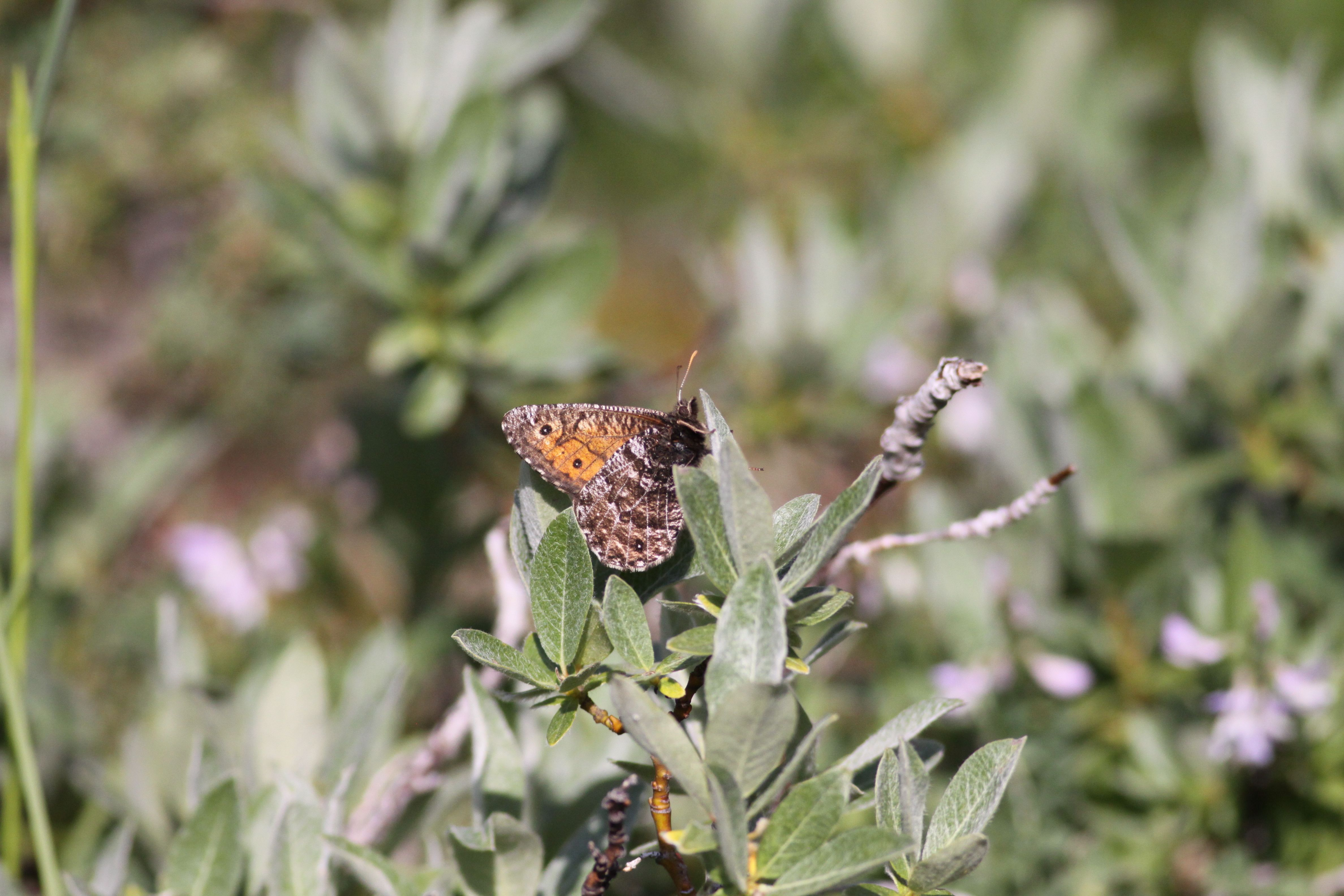 Near Skoki Creek, Banff National Park